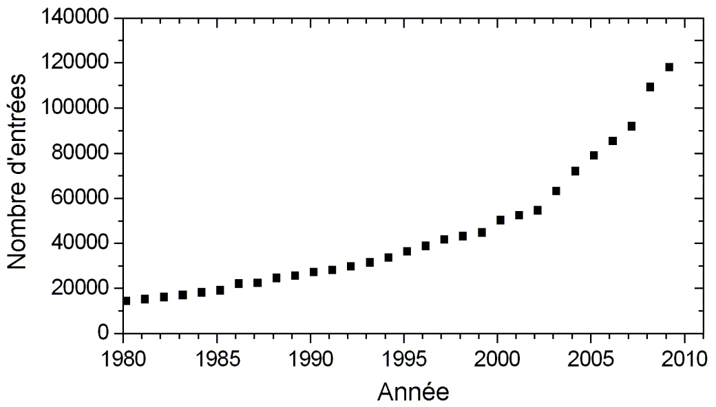 Evolution of the number of entries in the inorganic crystal structure database (ICSD) between 1980 and 2010.